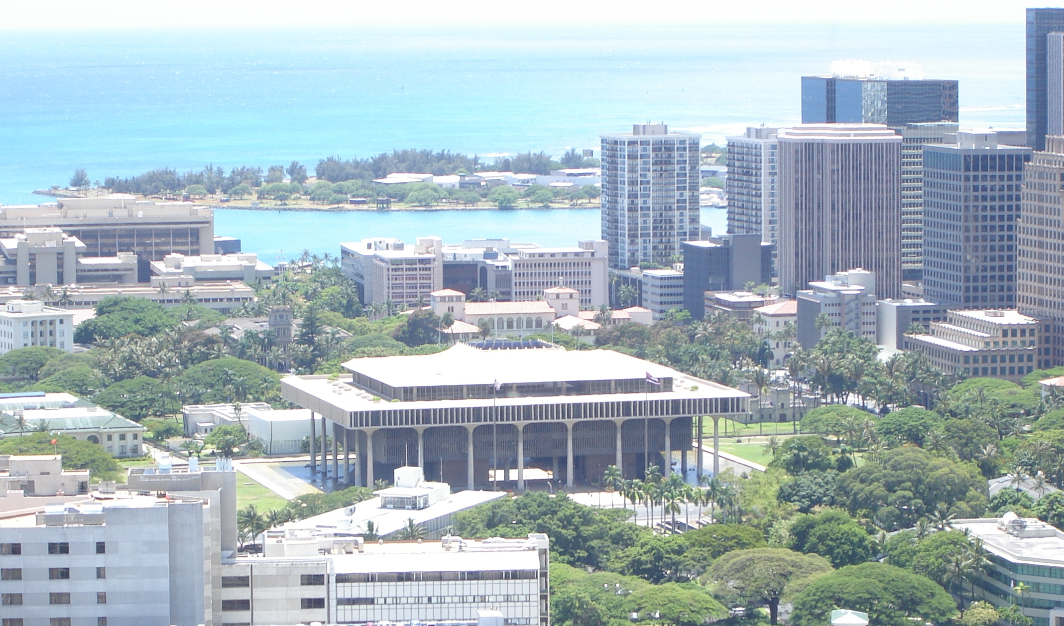 The Hawaii State Capitol, and Hawaii Capital Historic District, Honolulu. Picture taken from atop of Punchbowl.